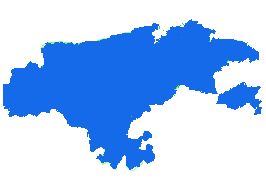 Roman Catholic Diocese of Santander